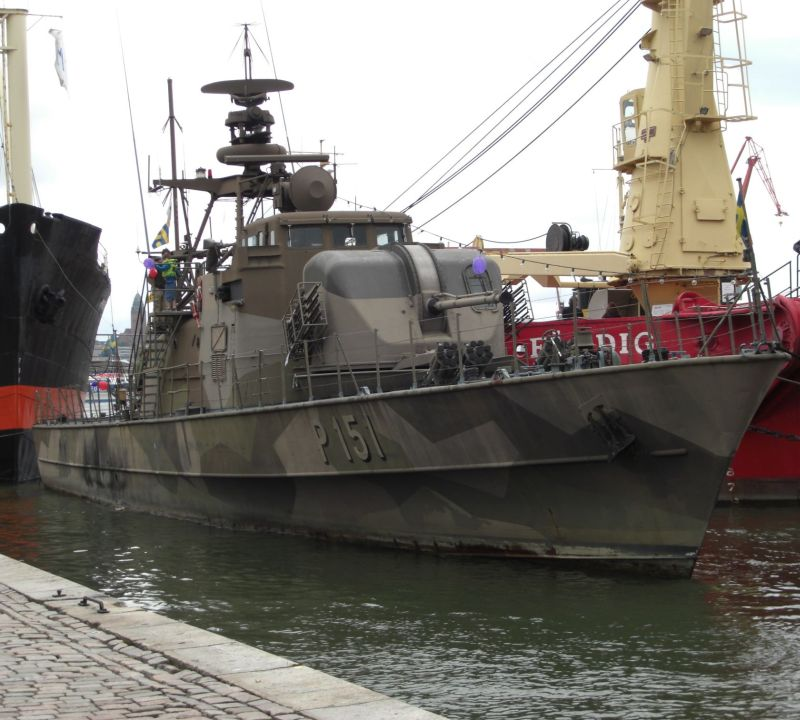 Birthdayparty and Place of Honor for HMS Hugin (P151) in Göteborg´s Maritime Adventure Centre july 2008. Celebrating 30th anniversary of the ships delivery to the Swedish Navy.